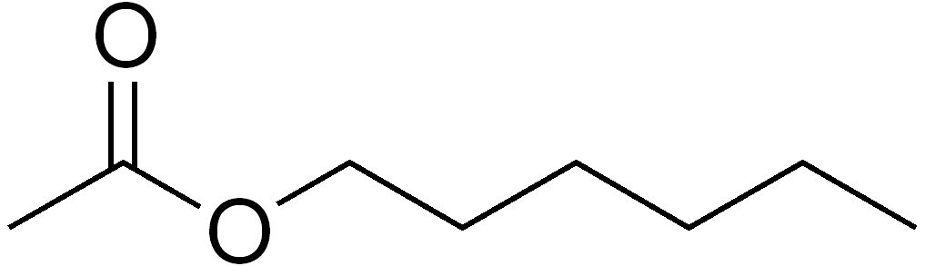 chemical structure of hexyl acetate